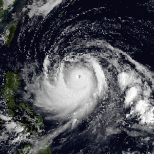 Typhoon Dinah on August 26, 1987